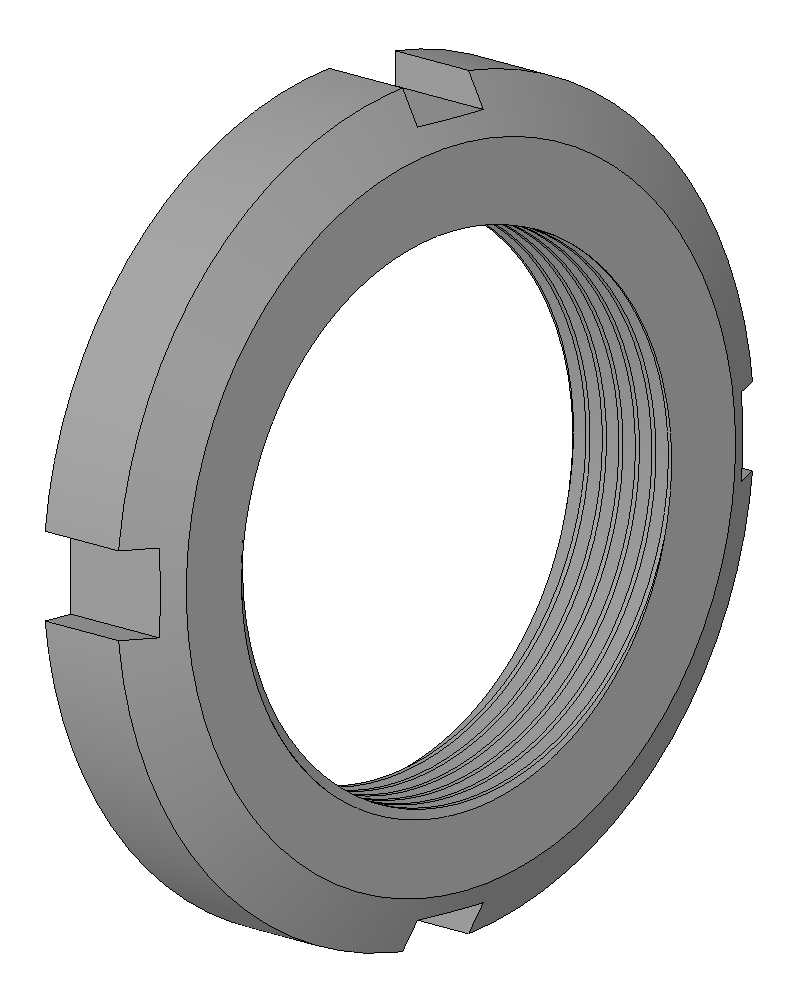 Slotted nut